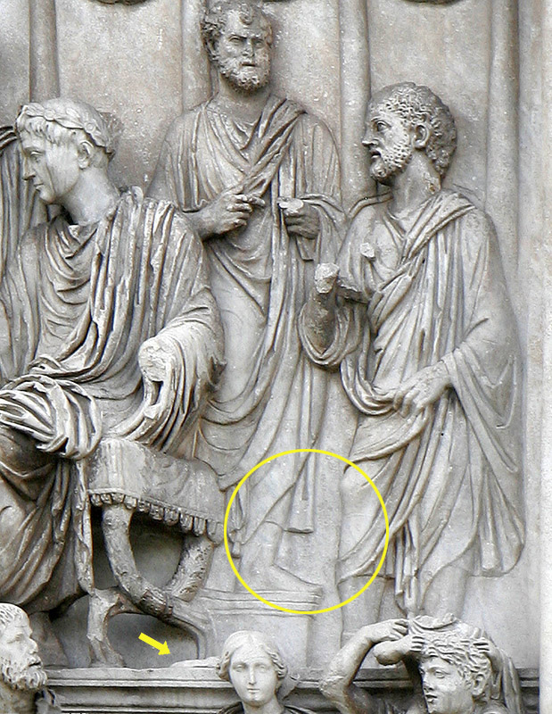 Arch of Constantine. Detail of "liberalitas" attic panel showing evidence of removal of Commodus, who probably sat in an adjacent sella curulis like his father, Marcus Aurelius (who has been recarved into Constantine in this panel). A fragment, likely the remains of his Commodus's foot appears on the podium (yellow arrow). Further evidence of recarving of this part of the relief is the fact that the bottom half of the toga of the man standing on the step is carved in lower relief than that of his upper half. This difference is not easily explained by differential weathering of the panel.